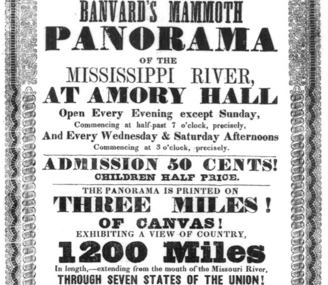 Detail of advertisement for performance by John Banvard at Boston's Amory Hall, 1847. "Will soon close the exhibition of Banvard's mammoth Panorama of the Mississippi River, at Amory Hall open every evening except Sunday, commencing at half-past 7 o'clock, precisely, and every Wednesday & Saturday afternoons"